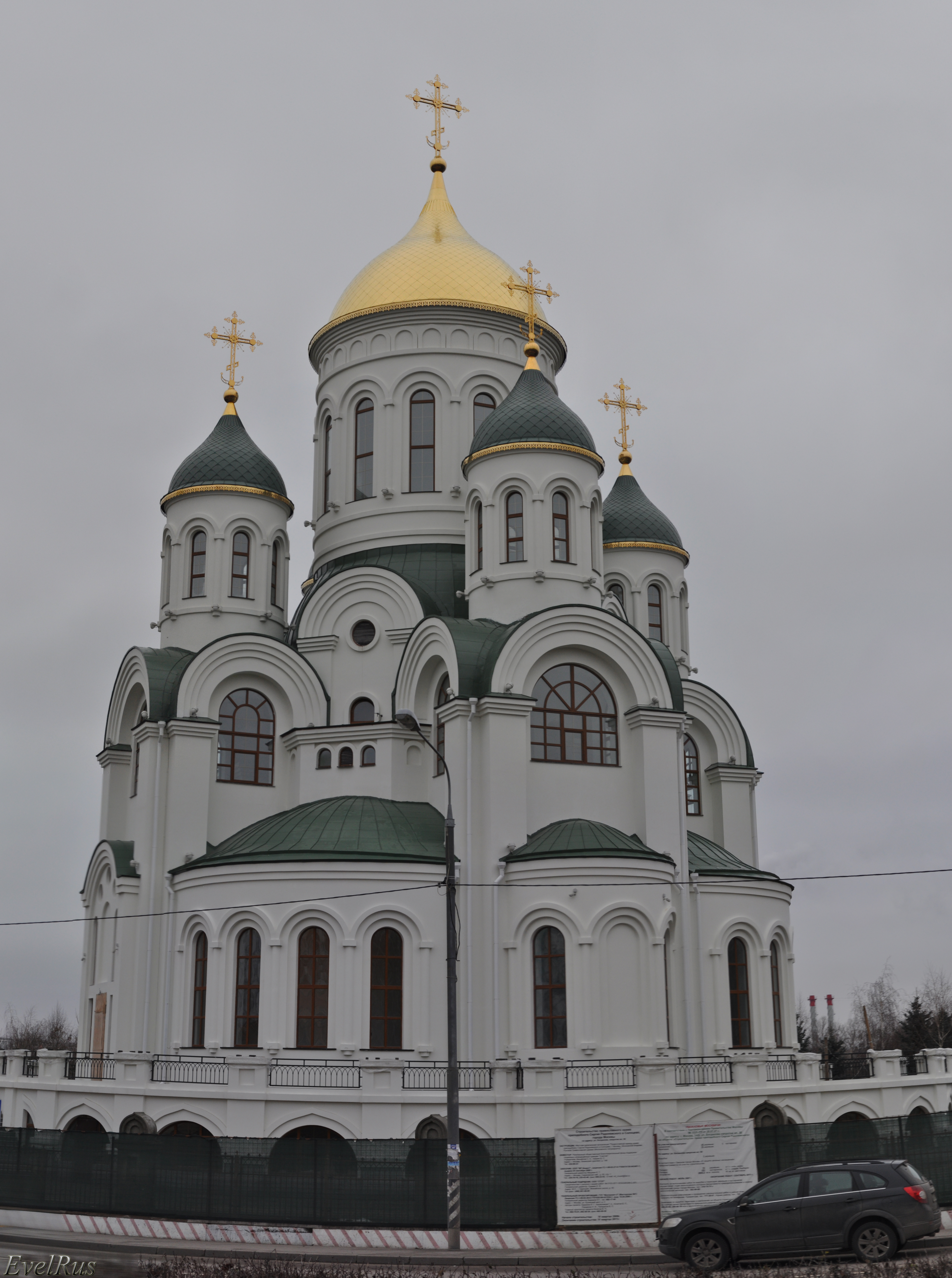 Temple of St. Sergius in Solntsevo